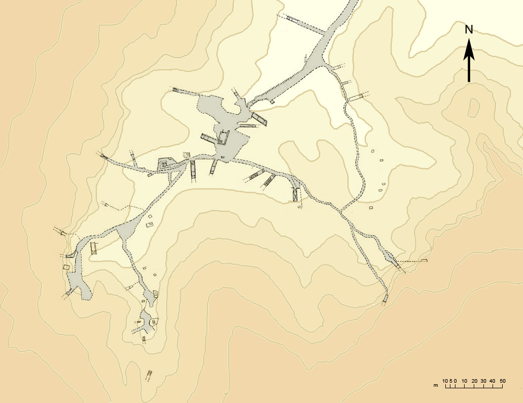 Sketch Map of East Valley of the Kings. Original version taken from Egyptian Antiquities in The Nile Valley, published in 1932, by James Baikie (1866-1931). Taken from the english Wikipedia [1] Modified to show location of KV63. Topographgic lines added For the correct locations of all graves on the map please see Template:Tal der Könige (Ost)